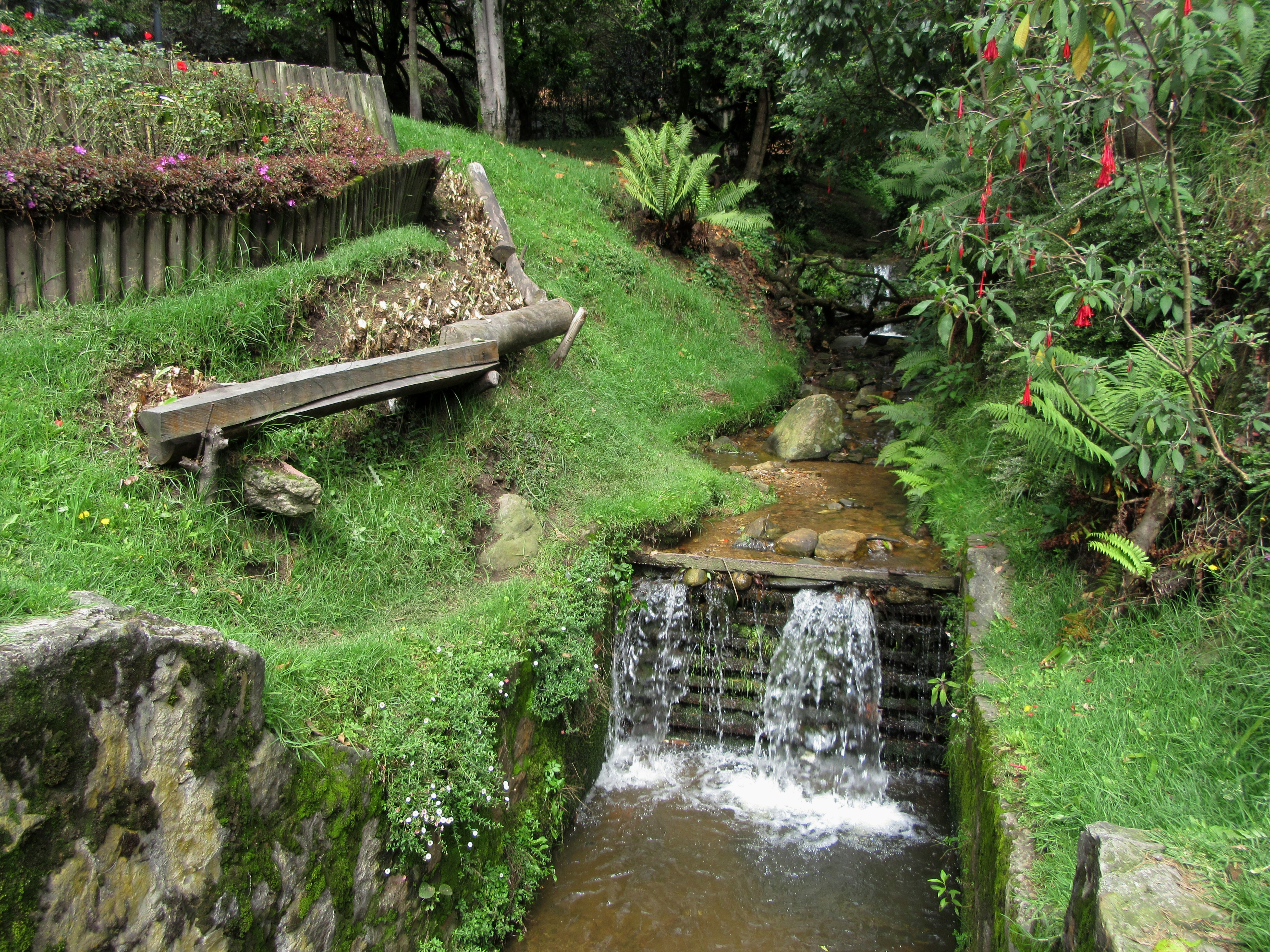 Bogotá